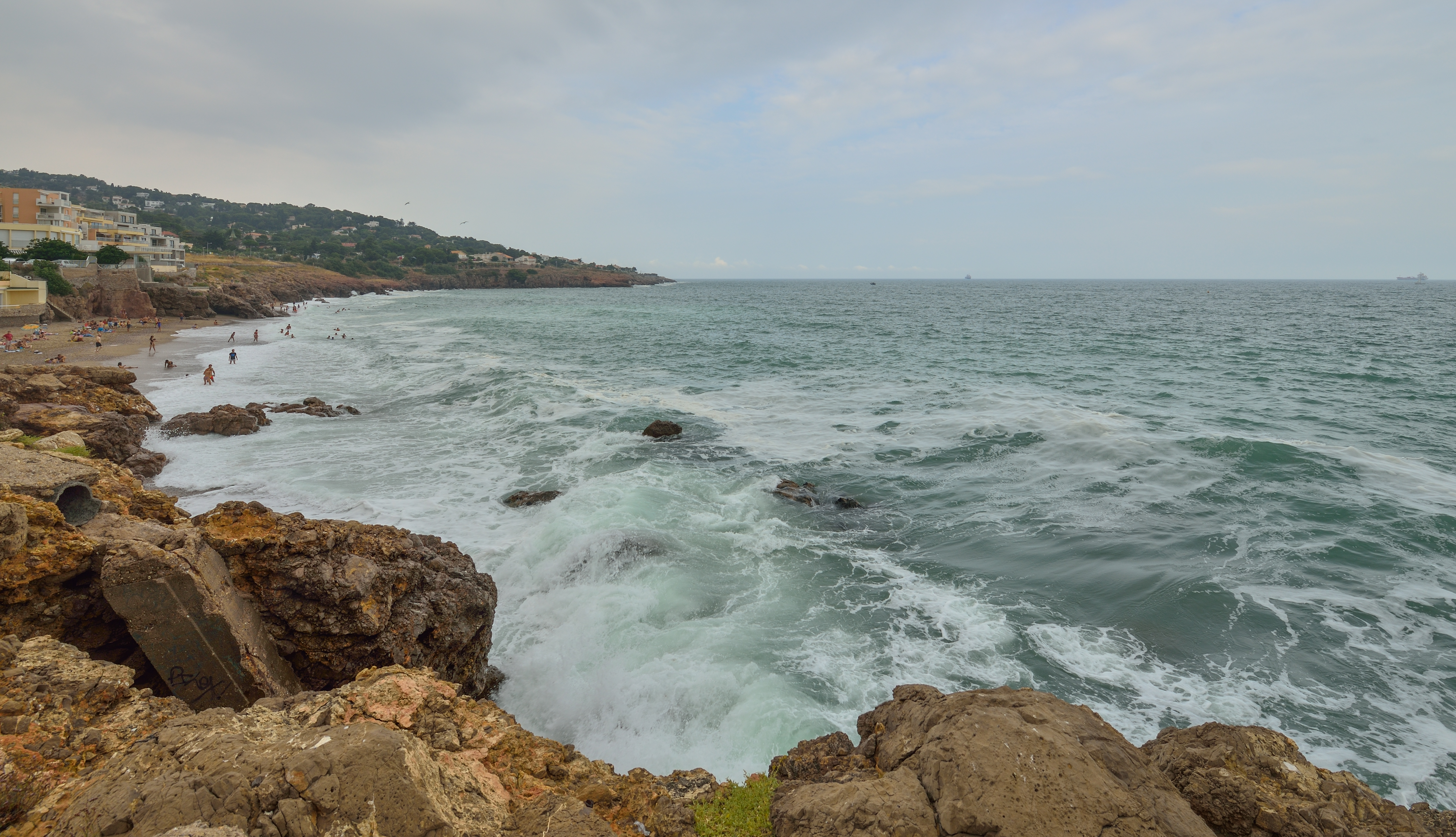 Crique de l'Anau, a cove at the neighbourhood of La Corniche, seen from the west and the Mediterranean Sea. Sète, Hérault, France.